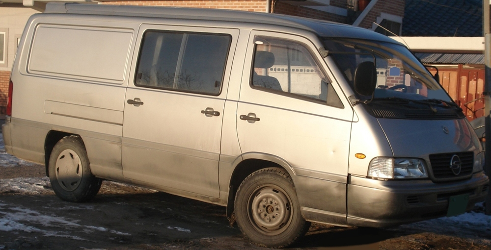 SsangYong Istana